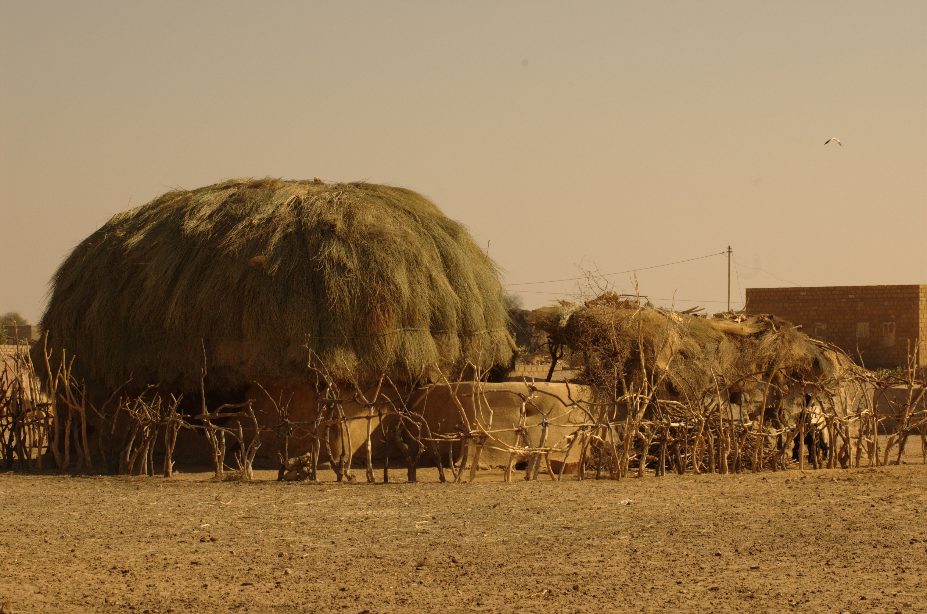 House in of the villages in Thar desert.